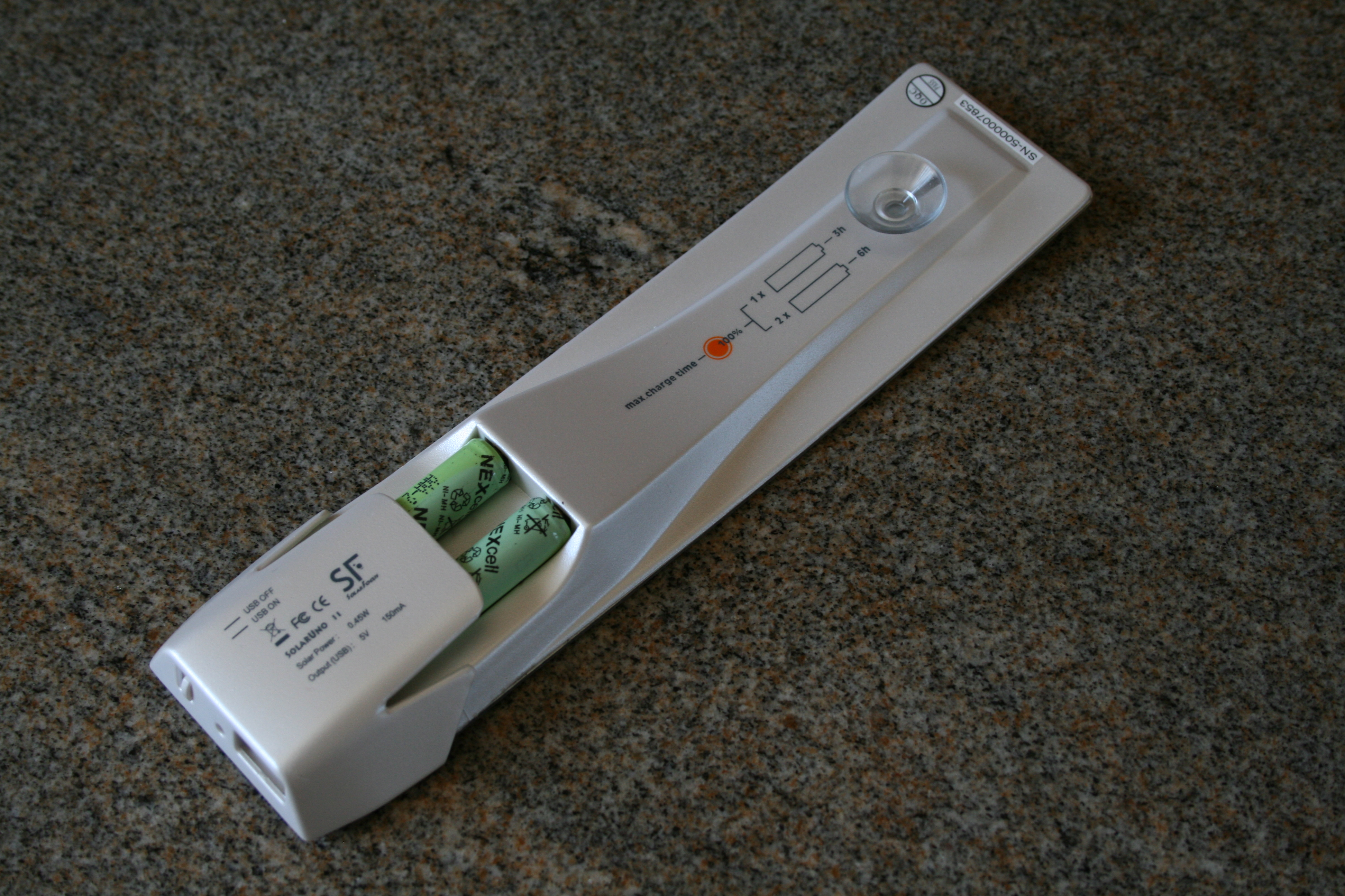 Small portable solar charger with 2× 1.5V cells and USB output. Back view